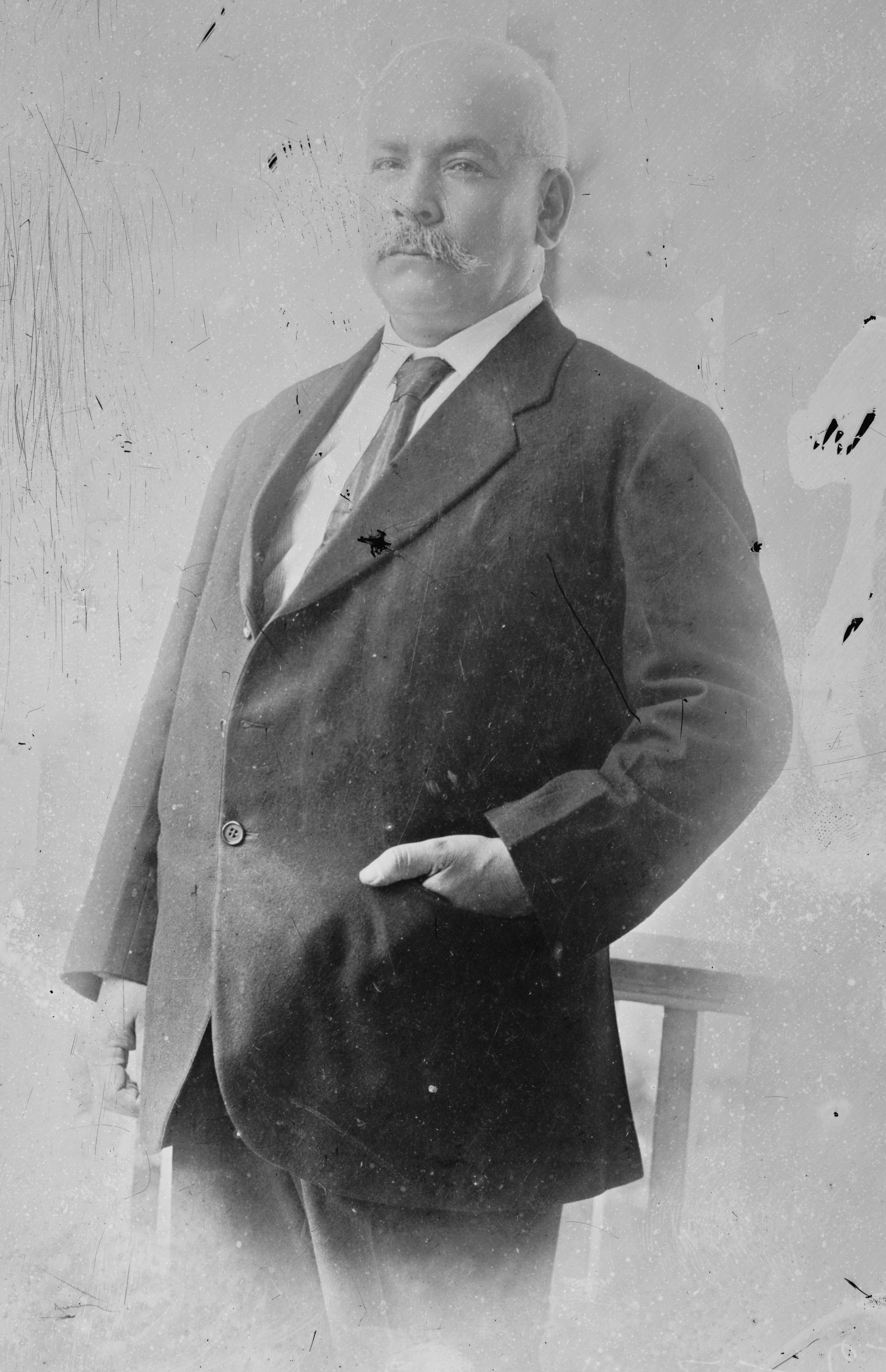 Francisco Vásquez Gómez, Mexican physician and former Minister of Public Instruction.